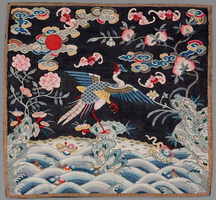 Golden pheasant rank badge, 2nd rank civil servant, silk tapestry with painted details. China, Qing Dynasty, late 18th – early 19th century. Denver Art Museum